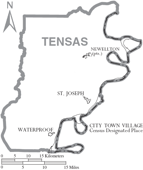 Map of Tensas Parish, Louisiana, United States with municipal boundaries